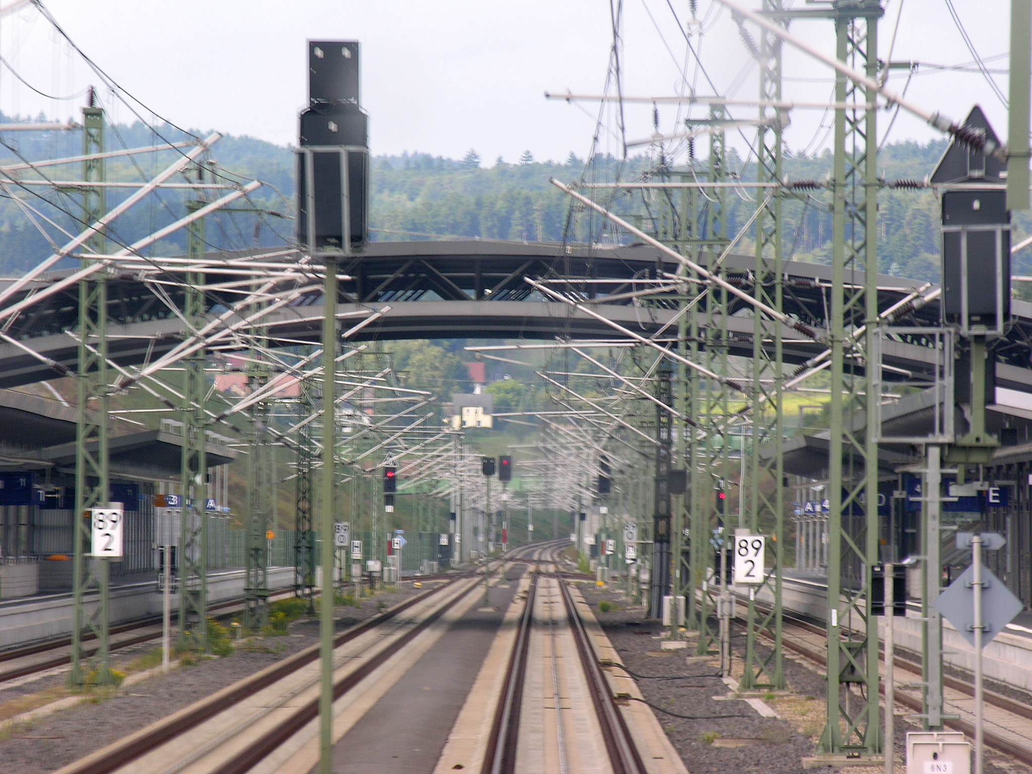 Driver's cabin perspektive of an ICE train passing through the station of montabaur in the direction to Cologne.